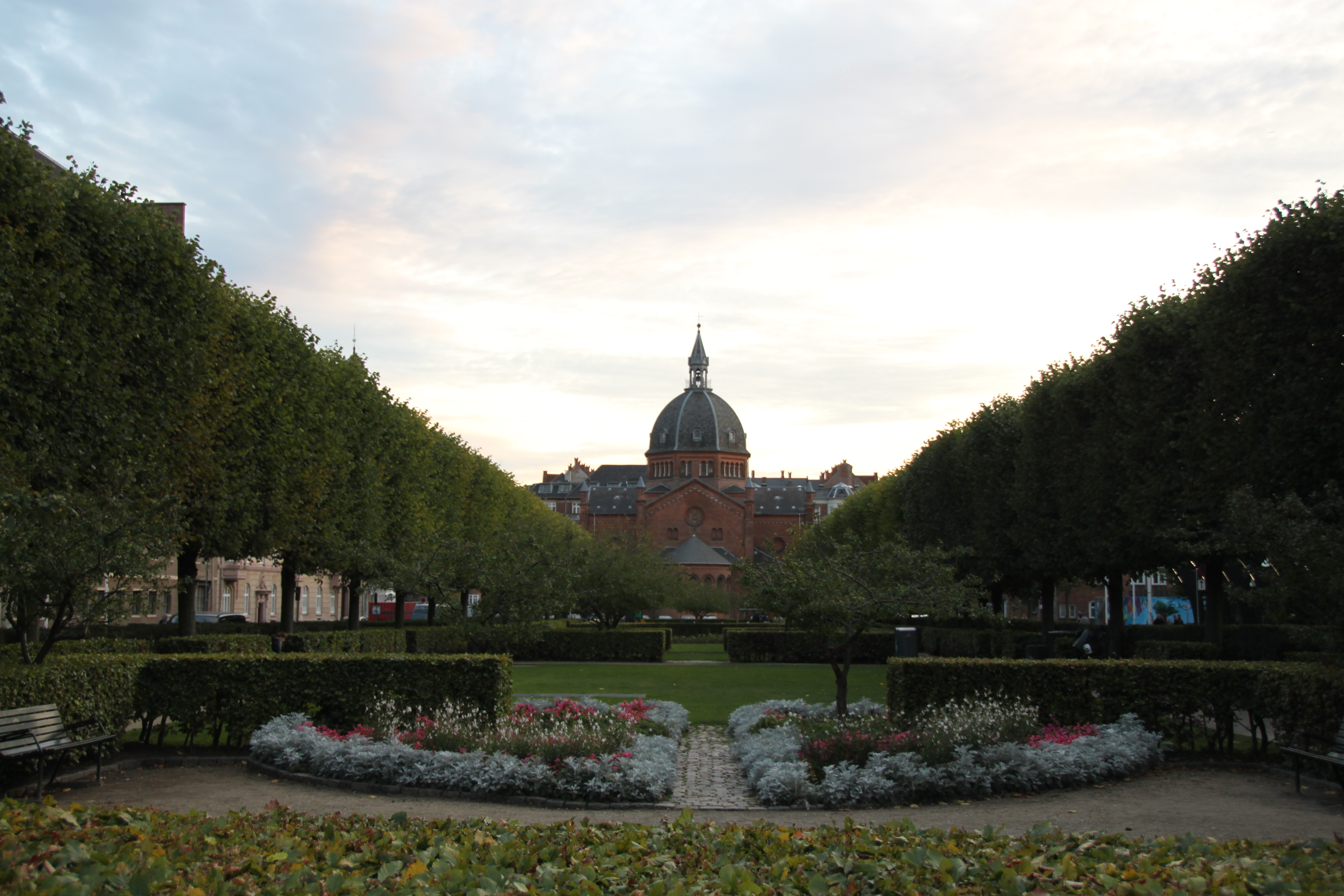 Julius Thomsens Plads with St. Mark's Church in the background in the Frederiksberg district of Copenhagen, Denmark